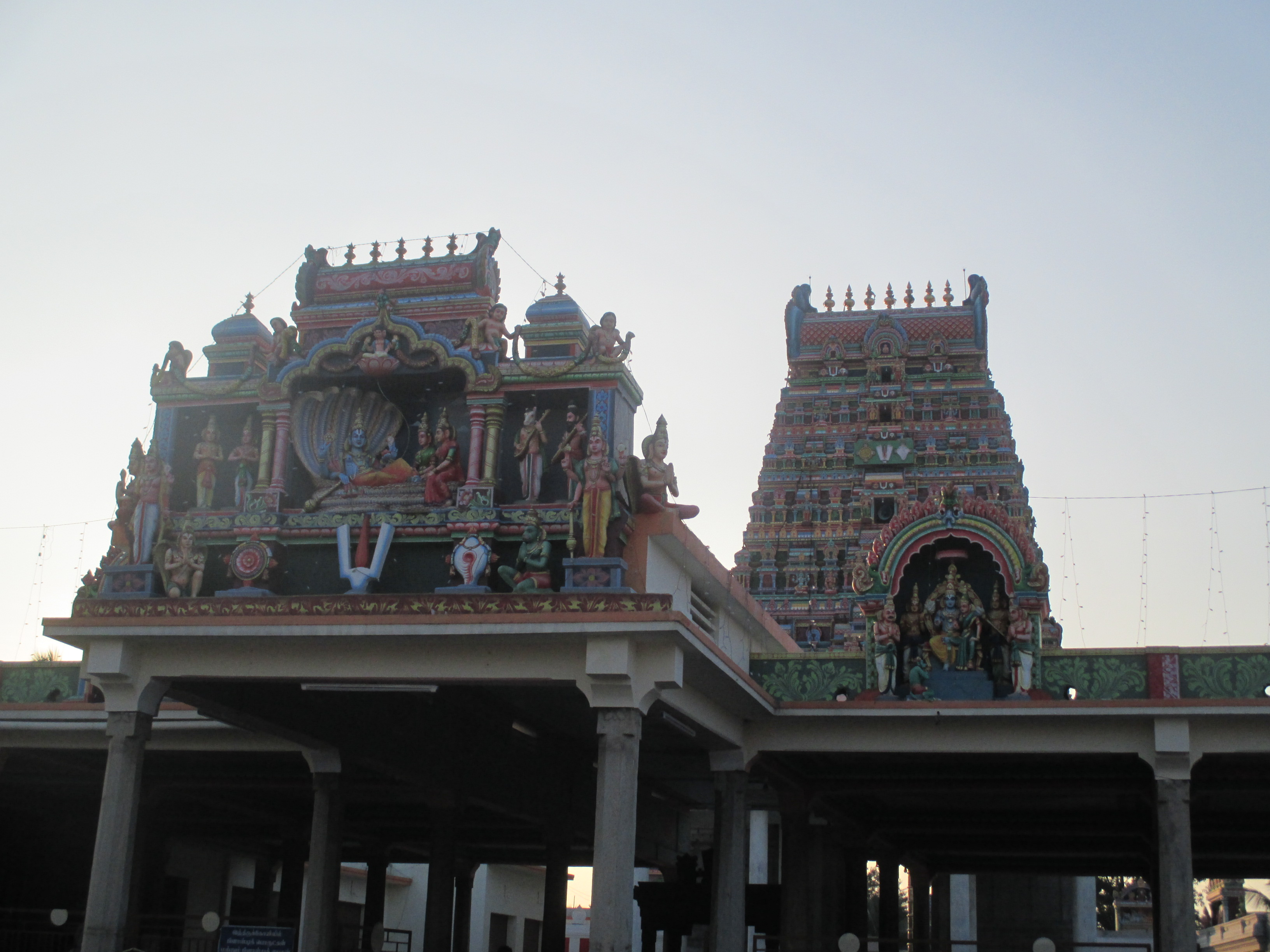 Ranganathaswamy Temple, Karamadai